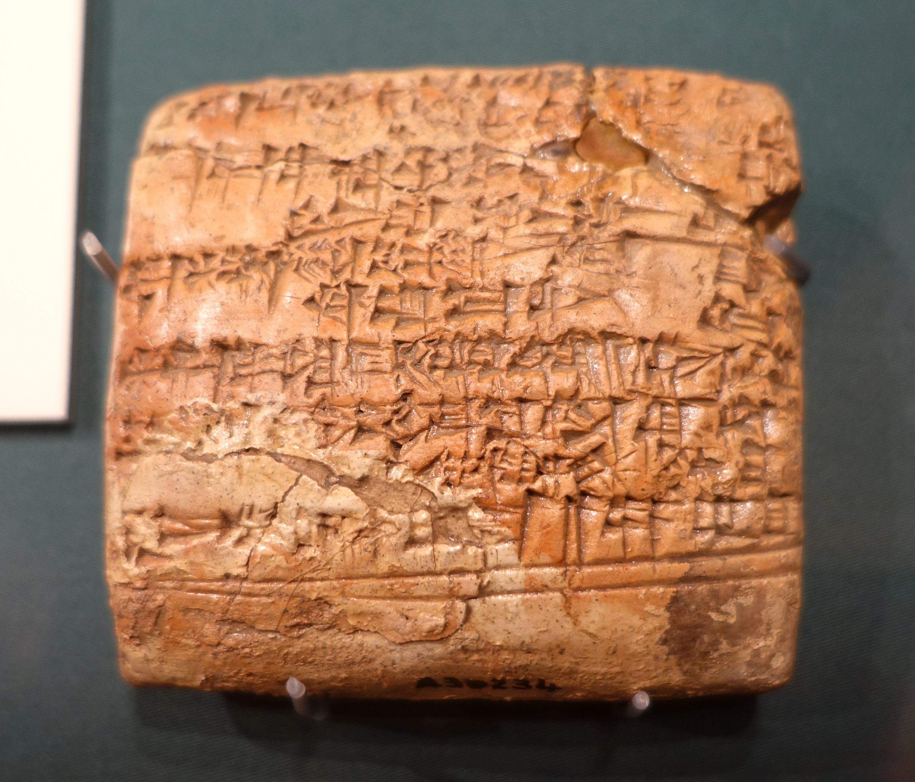 Exhibit in the Oriental Institute Museum, University of Chicago, Chicago, Illinois, USA. This work is old enough so that it is in the public domain. Translation: "The gate of the great house, which is a furious storm, a flood which covers everybody: / when a man of whom is god disapproves reaches it, / he is delivered into the august hands of Nungal, the warden of the prison; / this man is held by a painful grip like a wild bull with spread forelegs".